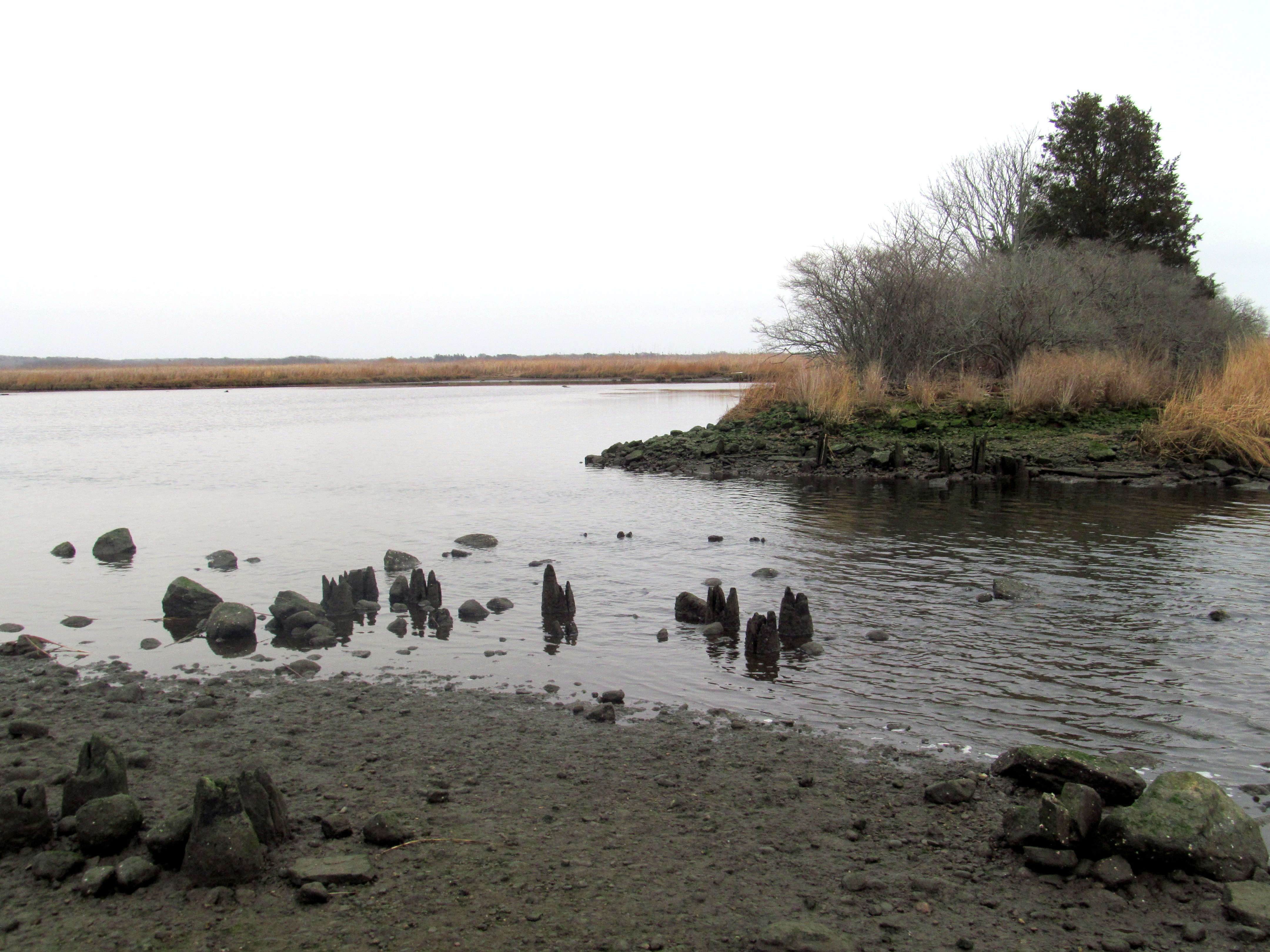 Wooden pilings of a former bridge along the Fenwick Branch (Connecticut Valley Railroad) right-of-way in Old Saybrook, Connecticut, photographed in December 2016